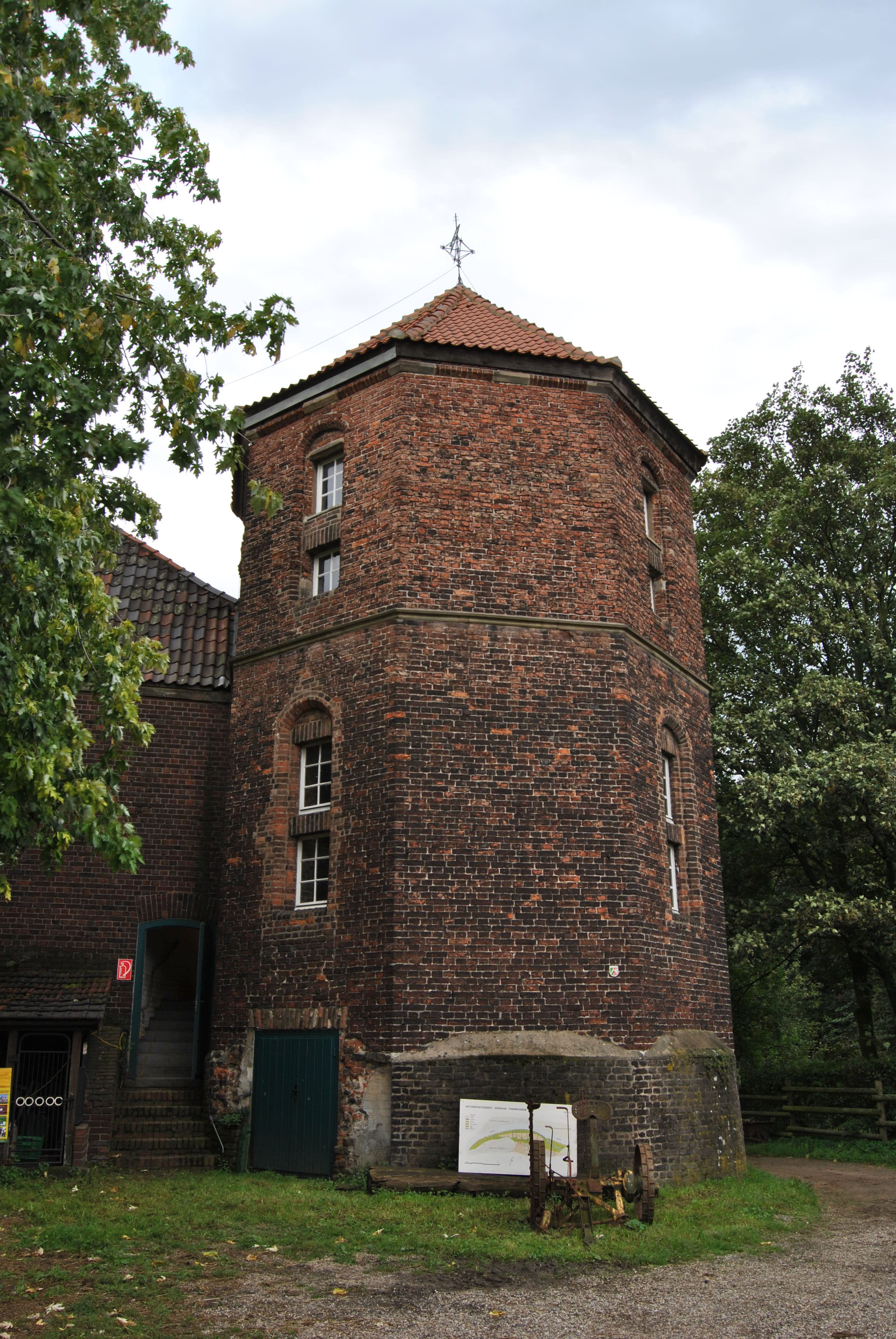 German Cultural Heritage Day – Duisburg (North Rhine-Westphalia, Germany) – district Friemersheim – former Friemersheim Castle This photograph was taken with a Nikon D3000 This image shows a heritage building in Germany, located in the North Rhine-Westphalian city Duisburg (no. 87).